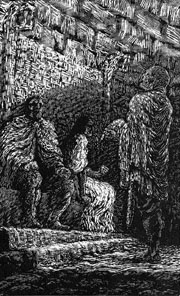 Eric Bloodaxe sitting on his throne with Gunnhild Mother of Kings at his side. The man standing up is Egil Skallagrimsson.